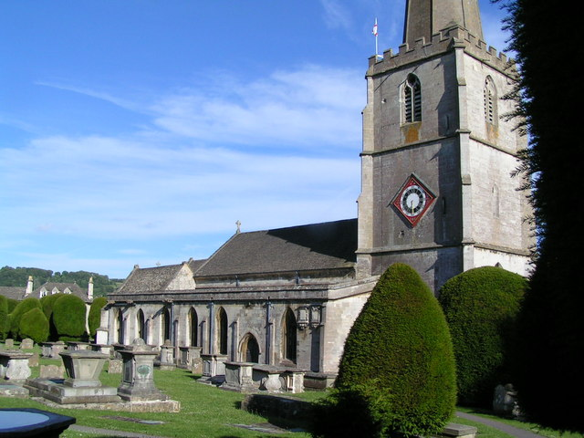 Painswick churchyard, near to Painswick, Gloucestershire, Great Britain.